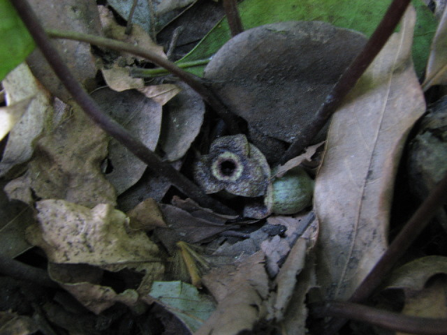 カンアオイの花(flower of Heterotropa nipponica)